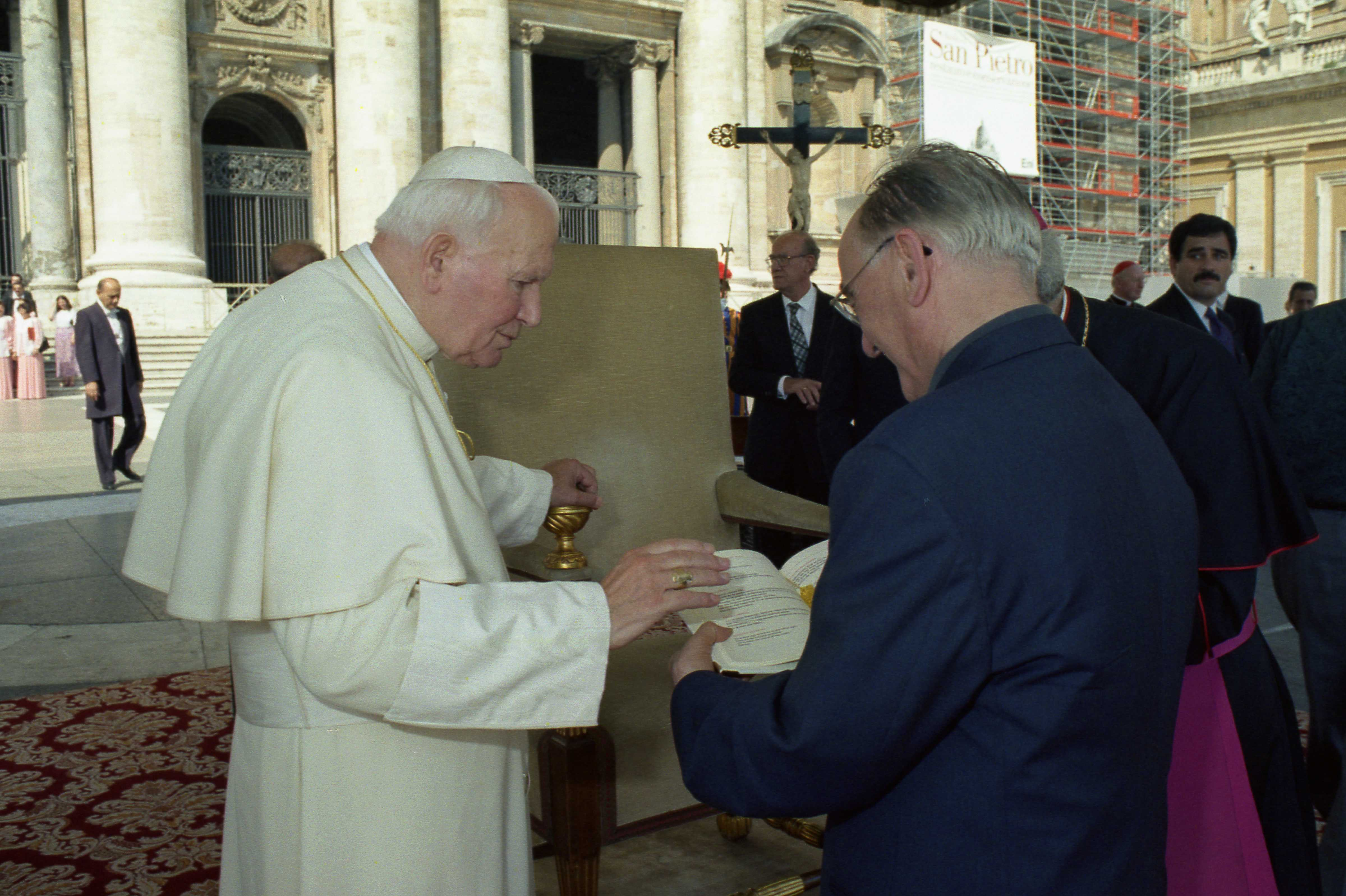 Pope John Paul II takes over the Esperanto Missal and Lectionary from IKUE.